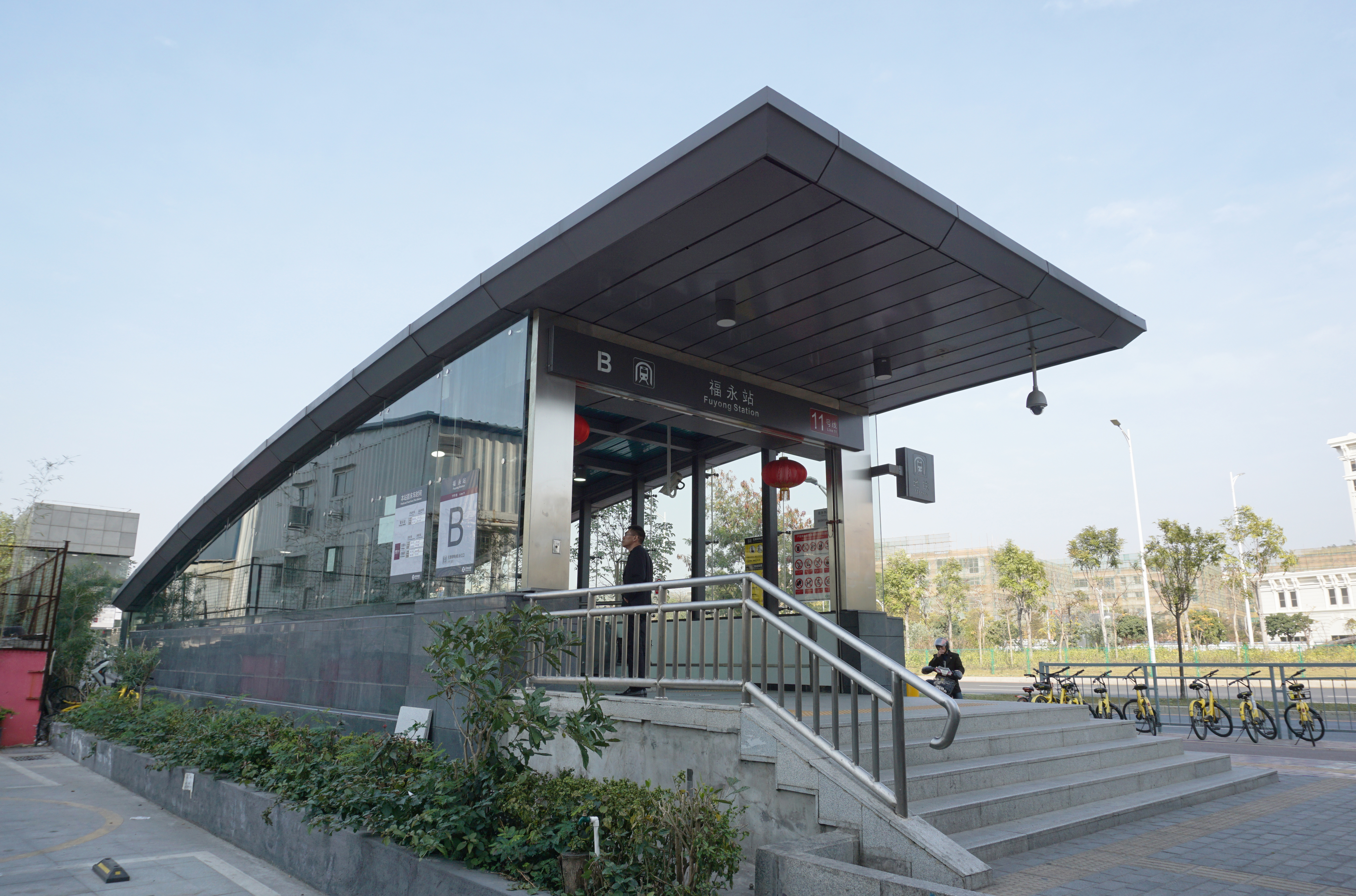 Fuyong Station in Shenzhen.